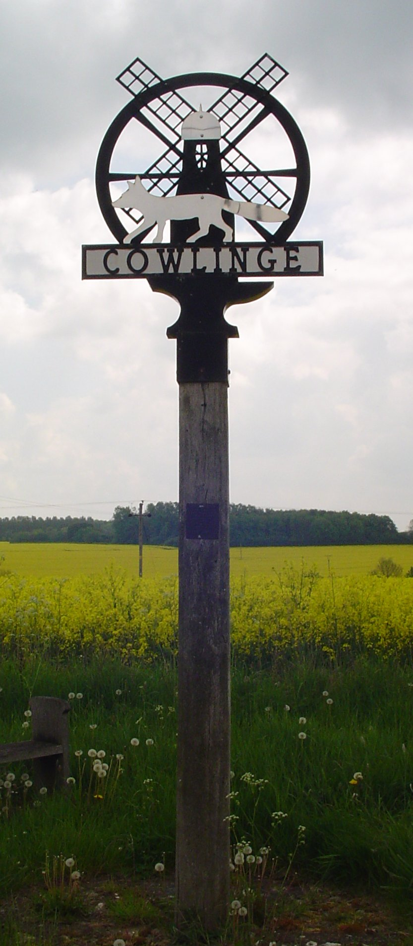 Signpost in Cowlinge